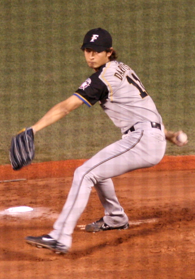 Yu Darvish begins his pitch.